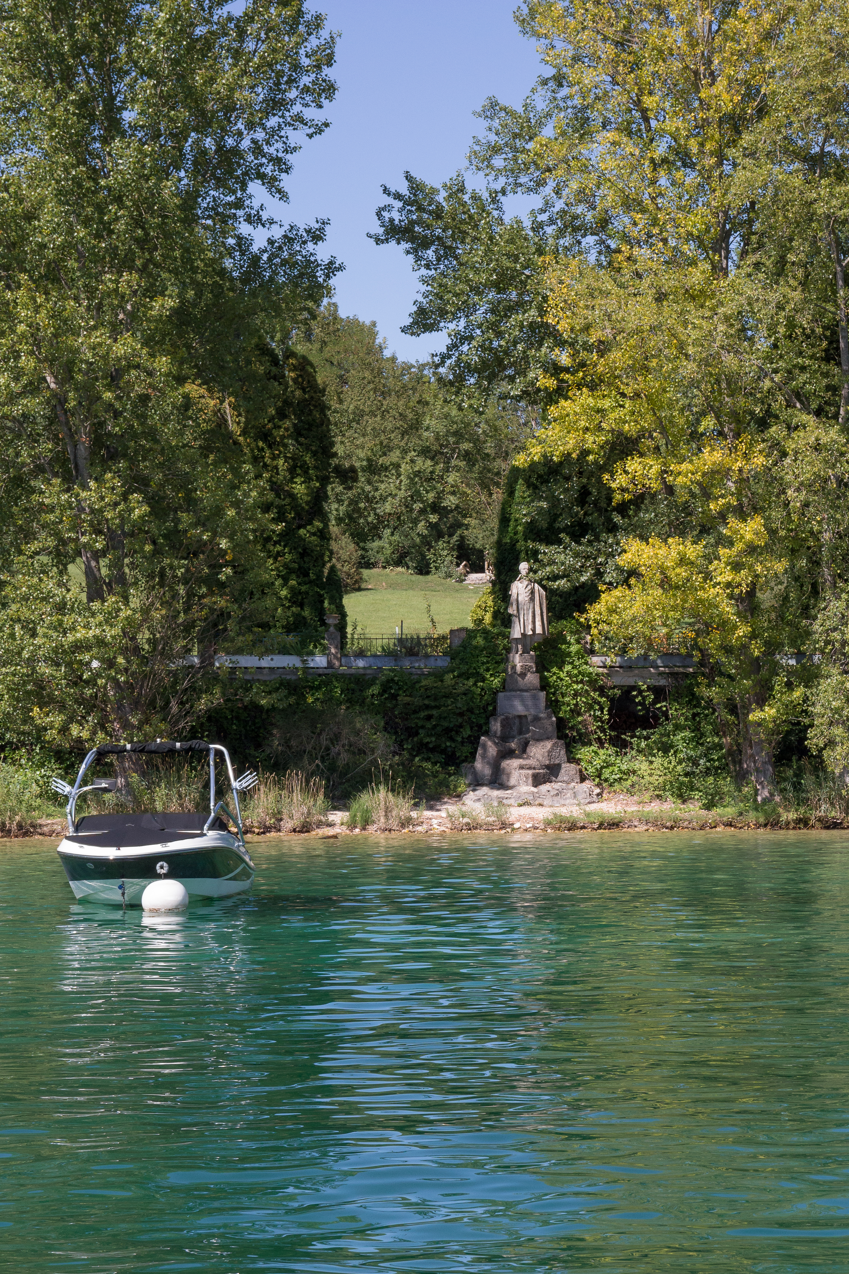 Lamartine Statue on the banks on the Lac du Bourget.